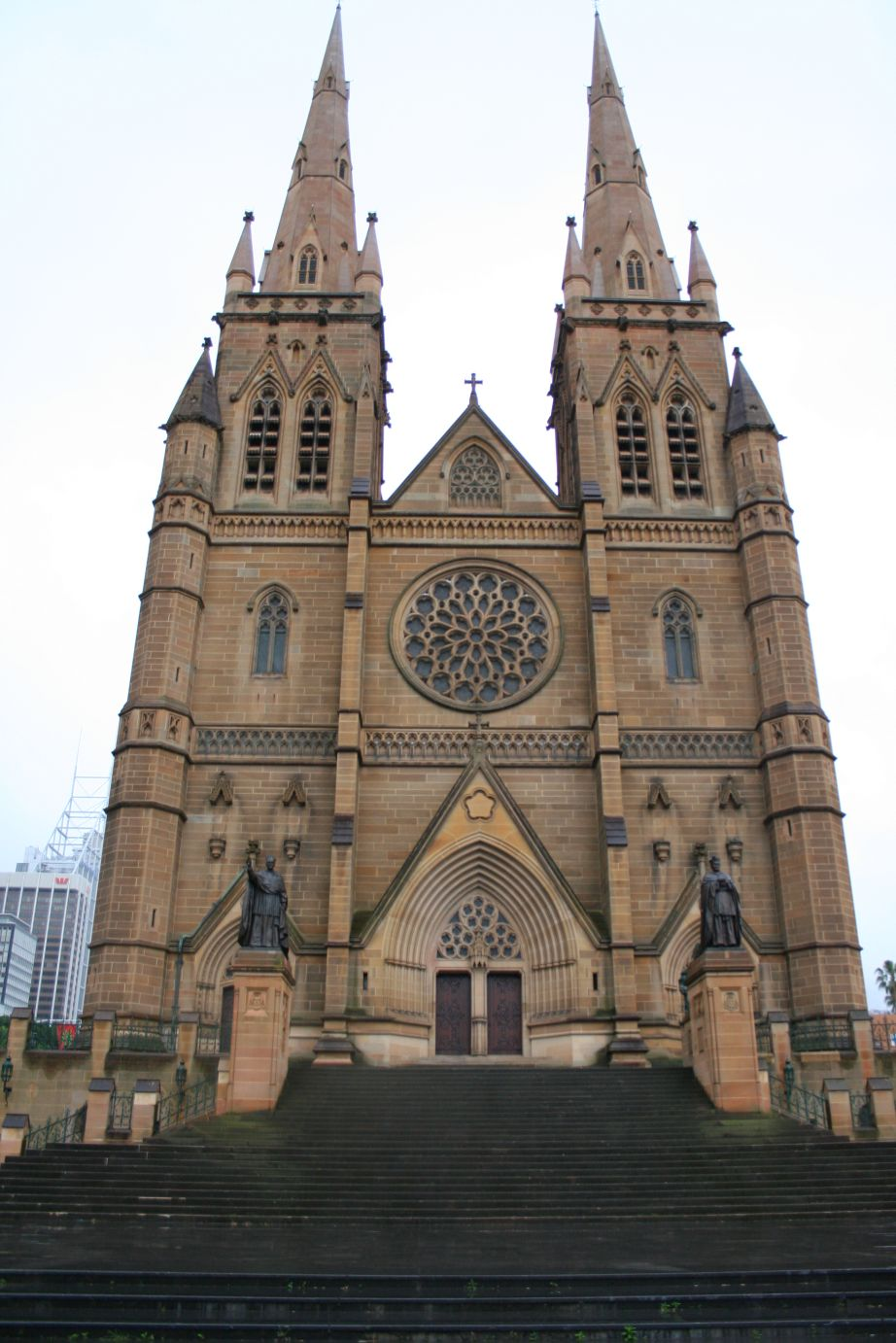 Taken by User:KaiAdin 17th October 2005, St Mary's Cathedral Taken from the Cathedral Forecourt, facing north, note, the spires were not added until June 2000. I took it when my SLR was new and was not as experienced in using it. Weather: Cloudy, was raining lightly at the time, Taken under an Umbrella